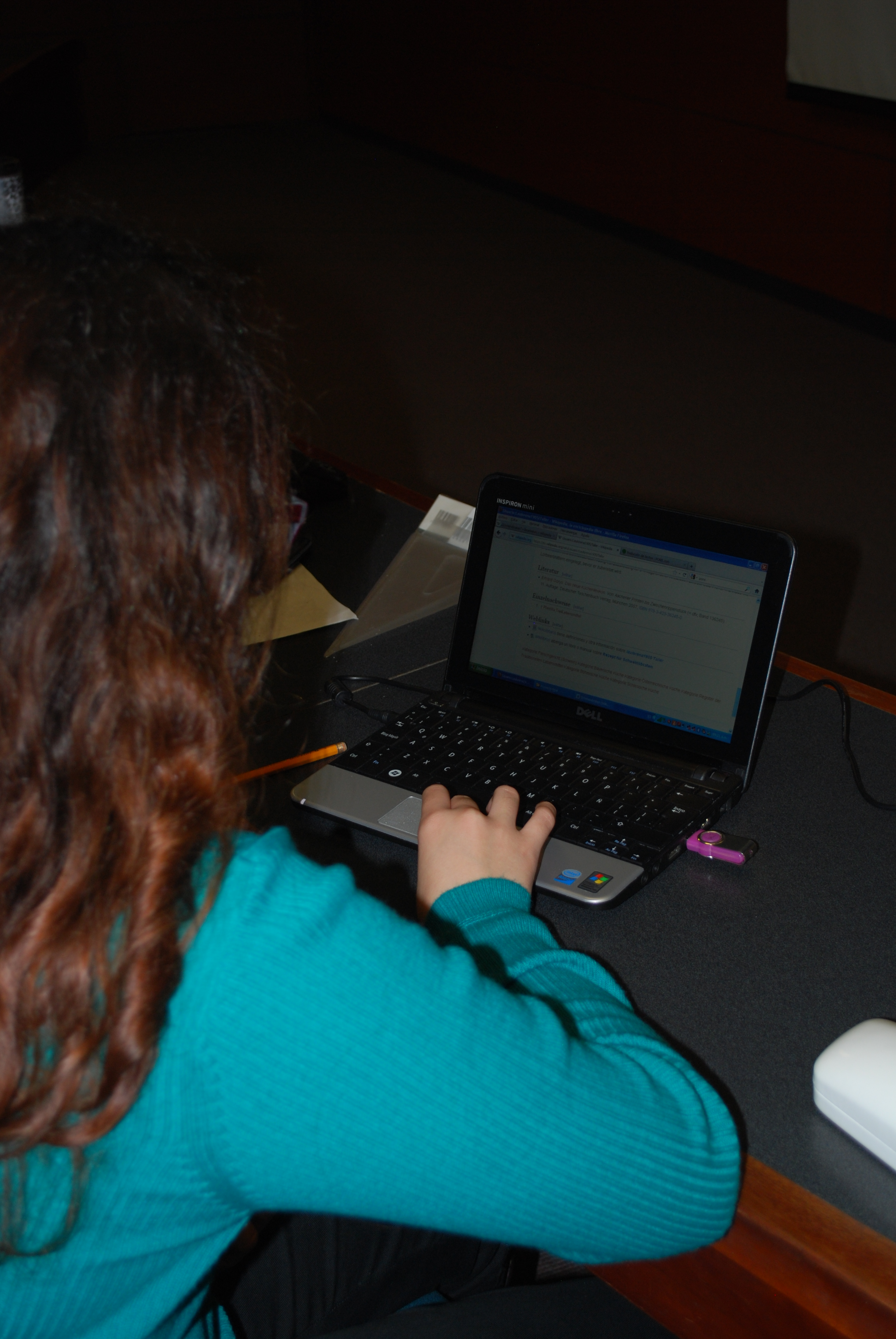 Student working on a project to translate a Wikipedia article from German to Spanish in a German IV class at ITESM Campus Ciudad de Mexico, Mexico City